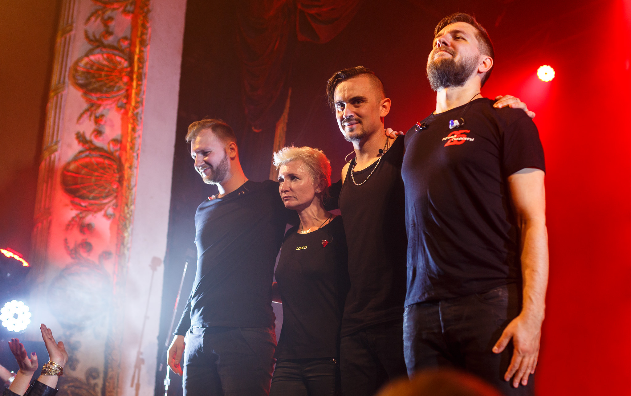 Night Snipers is a Russian rock group. It was founded in 1993 as an acoustic female duo of Diana Arbenina and Svetlana Surganova. Since its inception the band has participated in a variety of Russian musical festivals — from the underground to the major events, as well as touring extensively domestically and abroad.